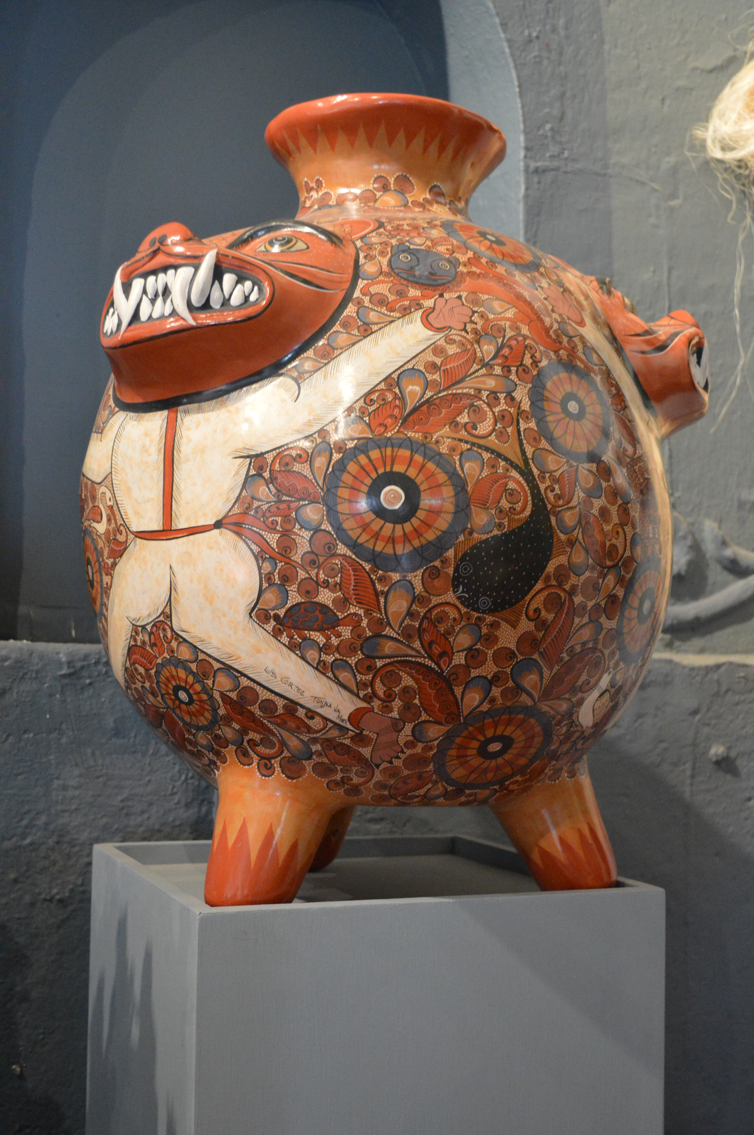 Vase by Luis Cortez at the Museo Nacional de la Ceramica in Tonalá, Jalisco